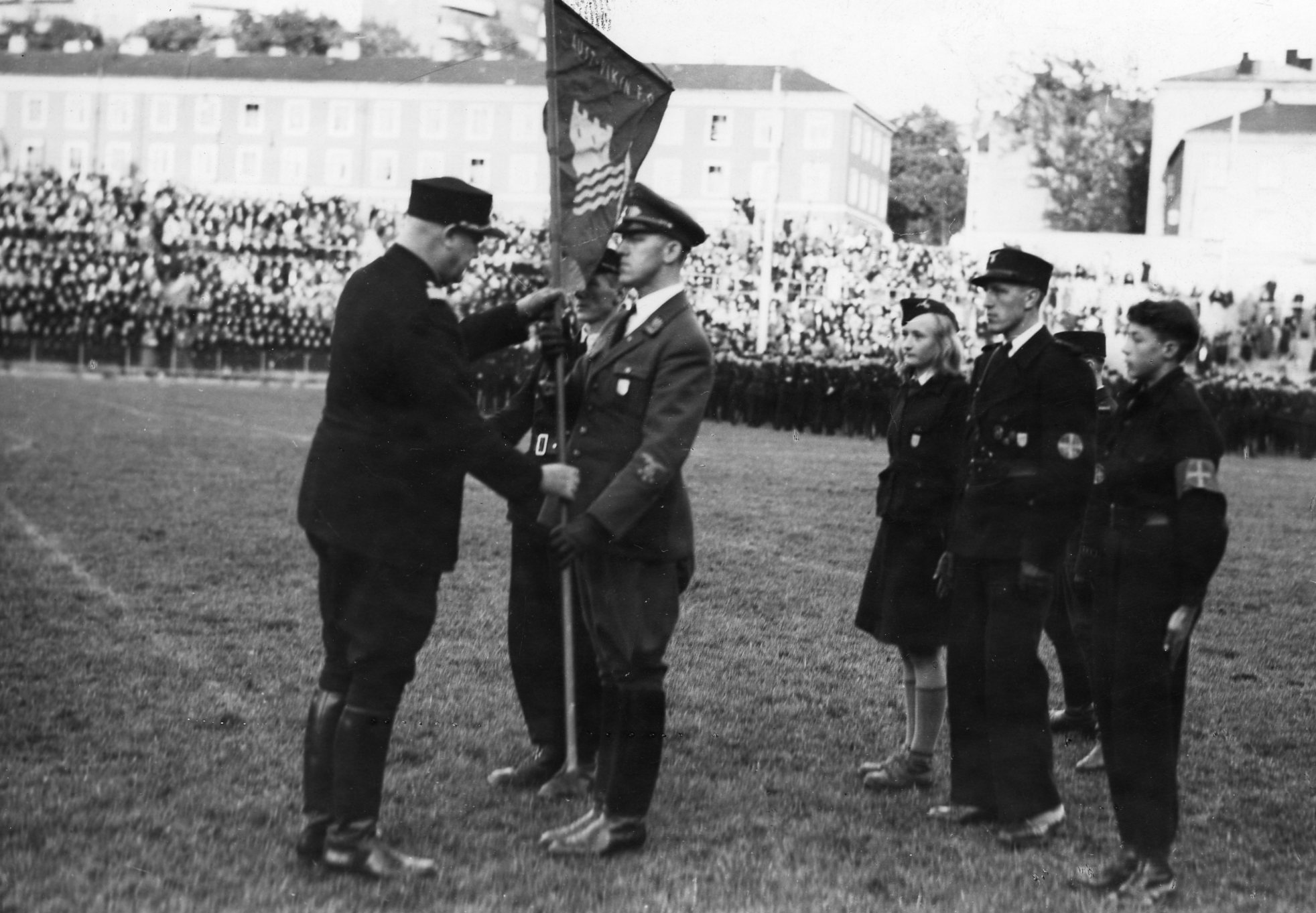 NS (the Norwegian Fascist party) held a total of seven party congresses in the 30s, but during the period 1940-1945 there was just one national meeting, the 8th national meeting in Oslo on September 26th and 27th 1942. An estimated 10,000 participants from across the country gathered in the capital for this party meeting. The extensive program included the major parades in which both labor service, women, SS, NSUF, and young party members paraded. There was a large memorial ceremony for the fallen in the Vigeland Park. The closing ceremony took place at Bislett Stadium.